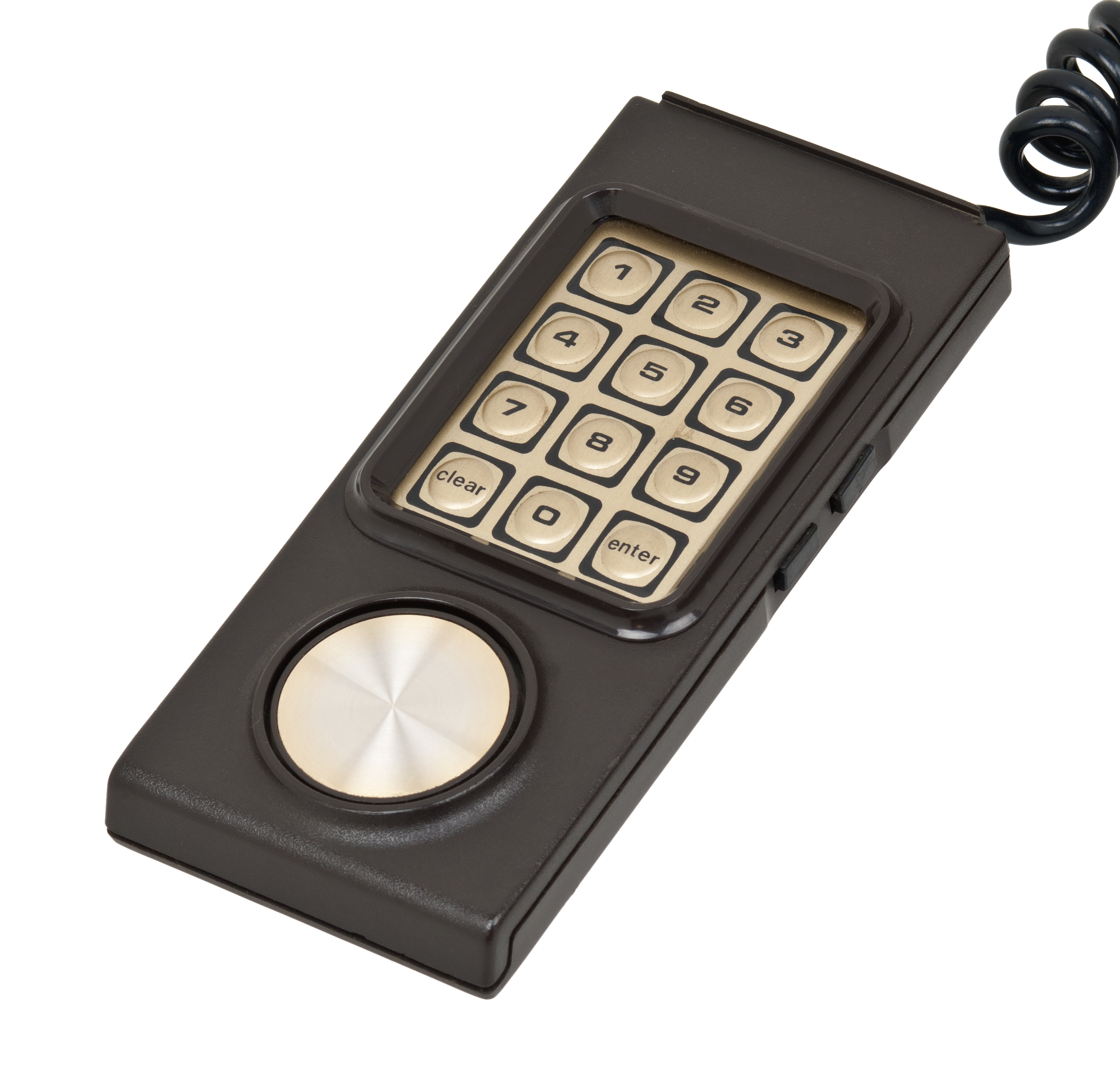 A close-up of the controller for the Intellivision, shown without the overlay.